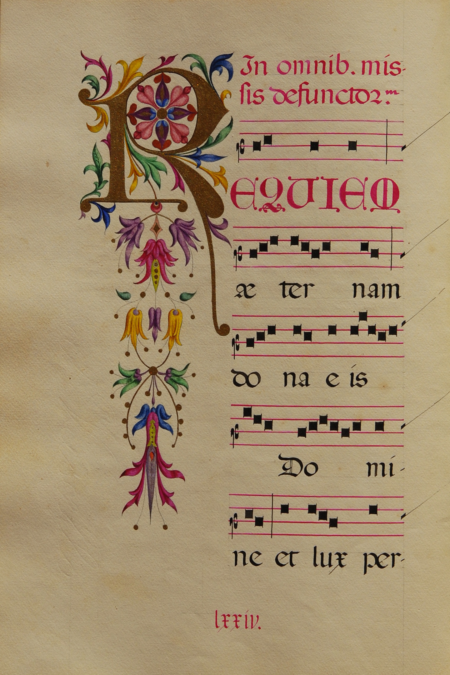 Miniature (illuminated manuscript) from: Liber choralis parvus continens missas vesperas et alia officia par S. Leonardi confes.